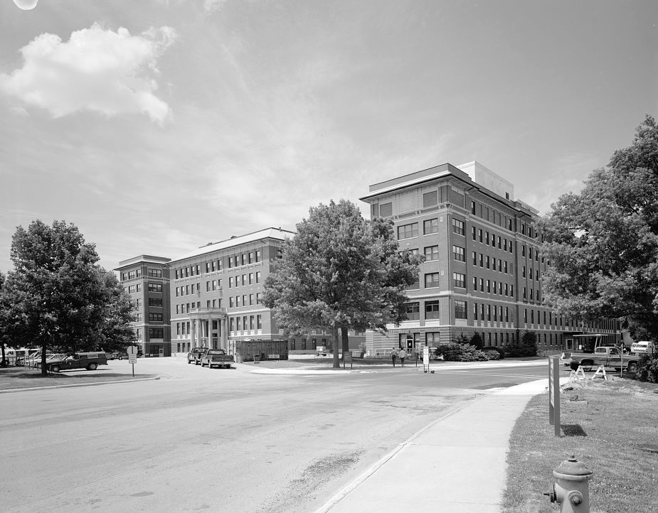 The main hospital at the Veterans Administration medical center, Leavenworth, Kansas, USA